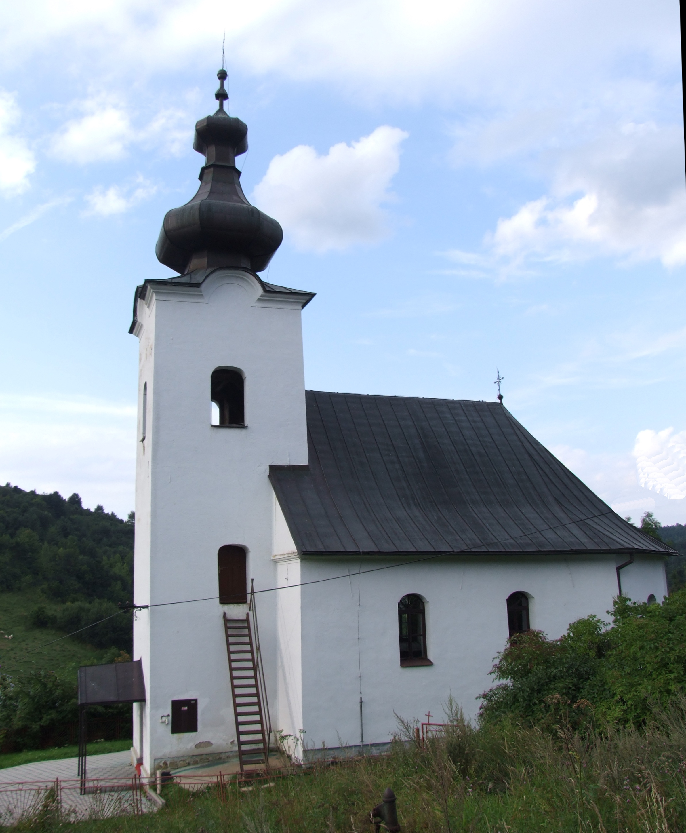 Kremná church